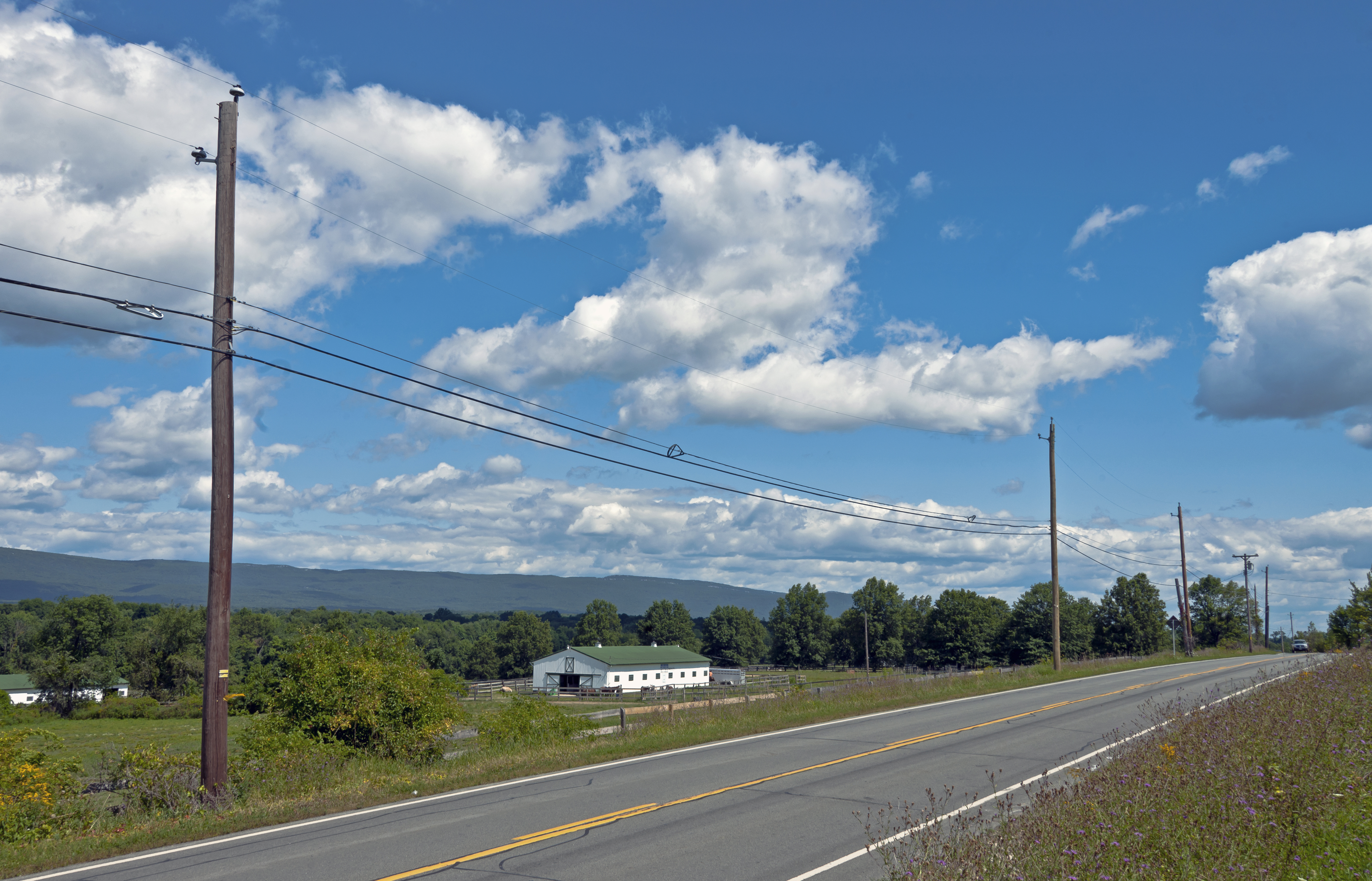 View of the Shawangunk Ridge from NY 302 at Buckleigh Farms, just south of Pine Bush, NY, USA